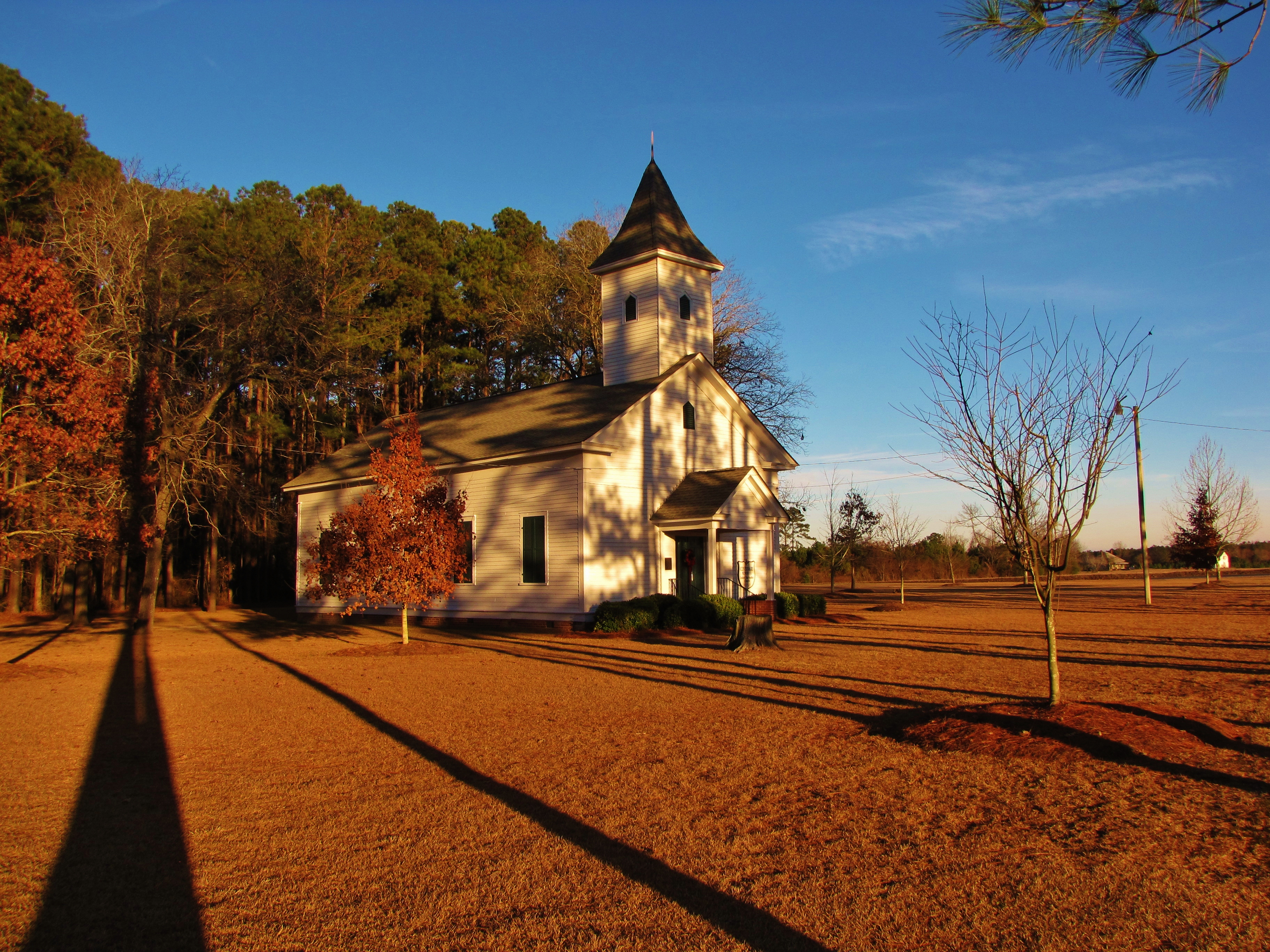 The historic Centenary Methodist Church, located at 2585 North Carolina Highway 130 East near Rowland, North Carolina, is listed on the US National Register of Historic Places.